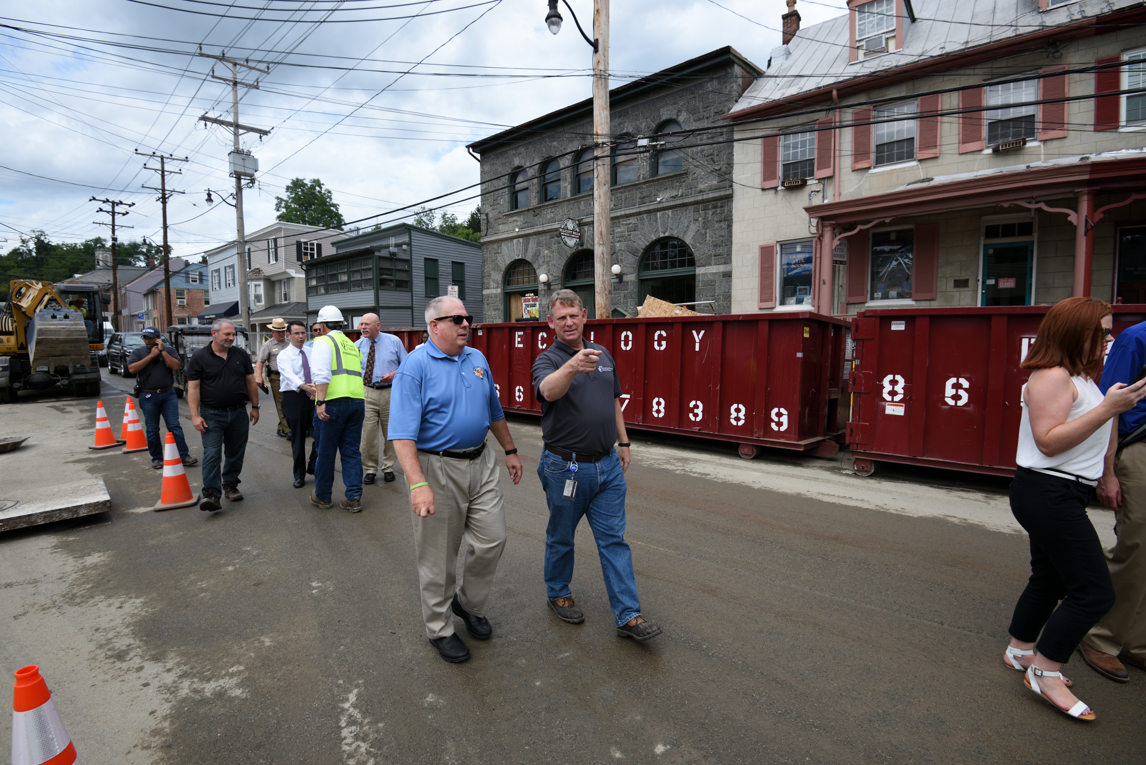 Governor Larry Hogan Tours Old Ellicott City by Anthony DePanise at Main Street, Ellicott City, Maryland 21043